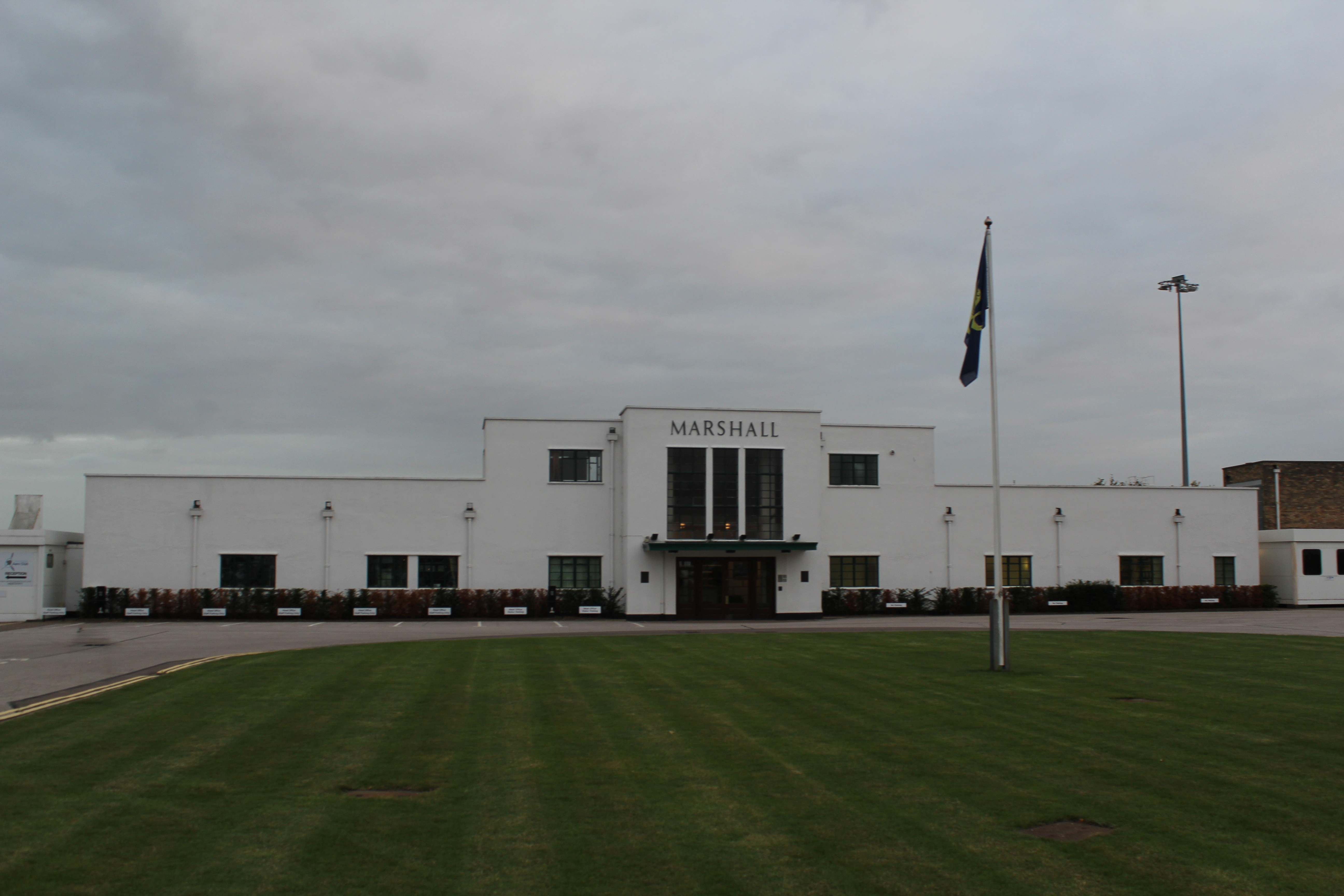 Marshalls Cambridge Airport Control And Office Building Wikidata has entry Q26561722 with data related to this item.